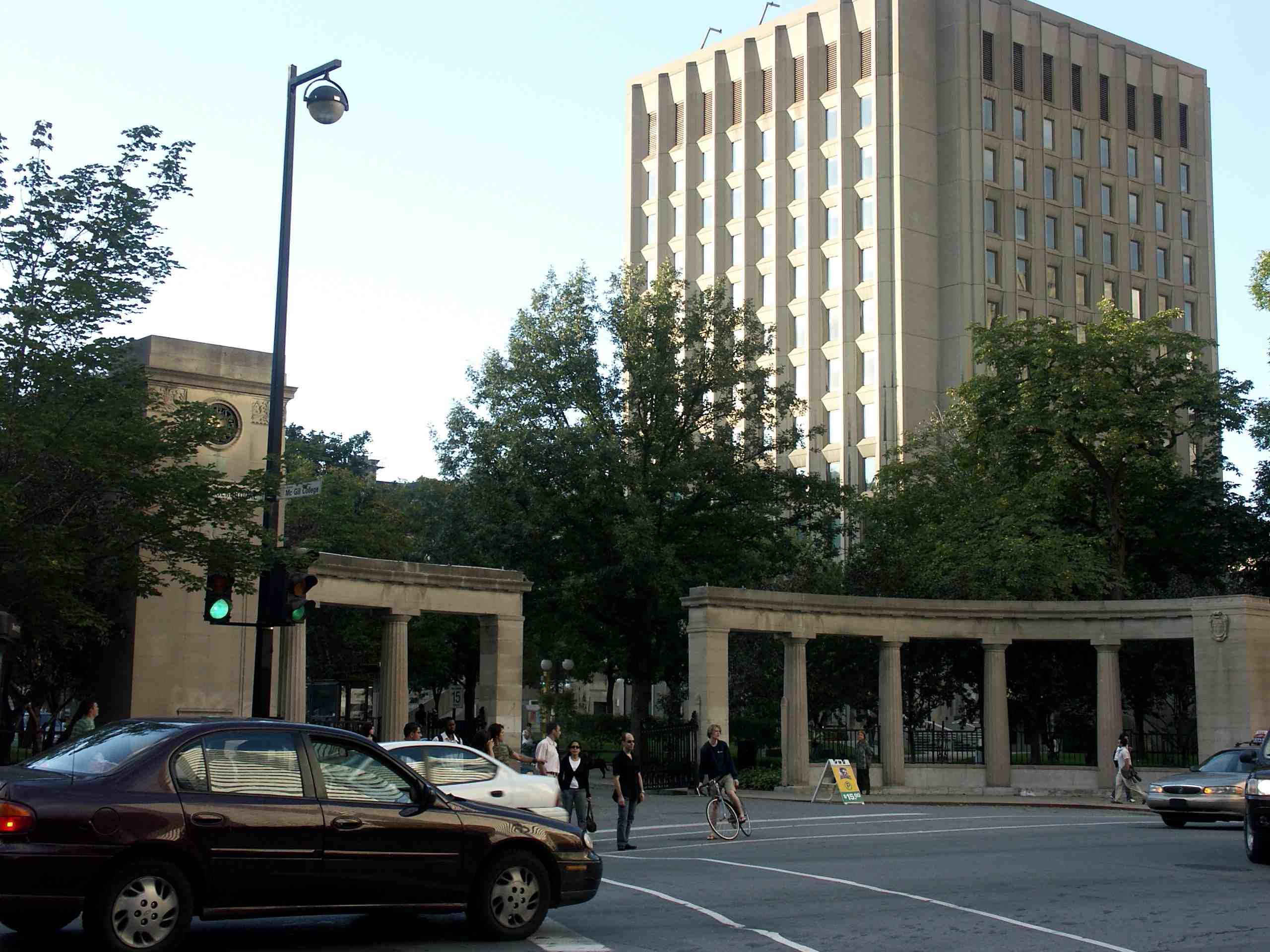 The main gates, called Roddick Gates, of McGill University, Montreal. The large square building in the back, right, is Burnside Hall. Photo by: User:Gene.arboit